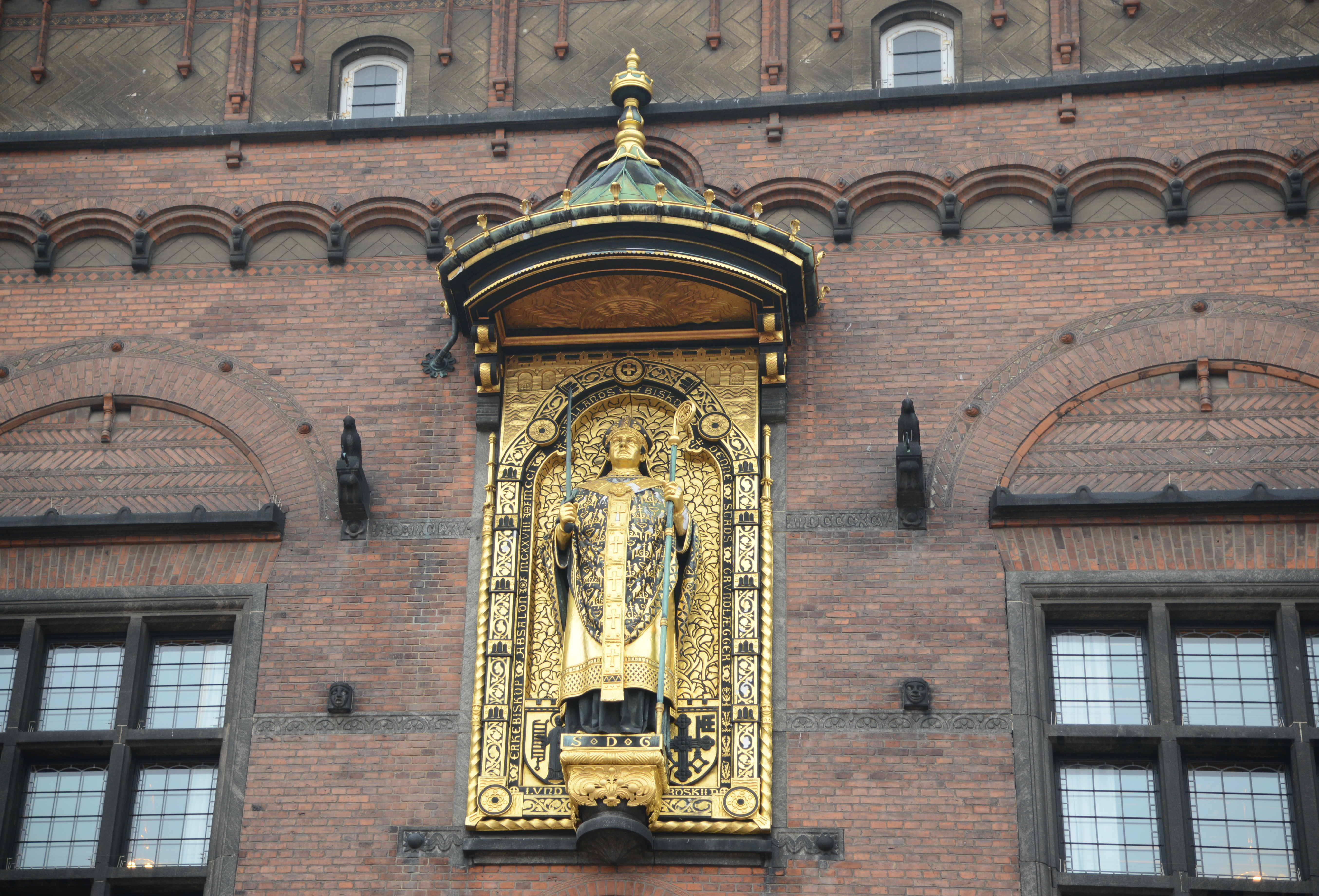 Copenhagen City Hall (Danish: Københavns Rådhus) is the headquarters of the municipal council as well as the Lord mayor of the Copenhagen Municipality, Denmark. The building is situated on City Hall Square in central Copenhagen. The current building was inaugurated in 1905. It was designed by the architect Martin Nyrop in the National Romantic style but with inspiration from the Siena City Hall. It is dominated by its richly ornamented front, the gilded statue of Absalon just above the balcony and the tall, slim clock tower. The latter is at 105.6 metres one of the tallest buildings in the generally low city of Copenhagen. In addition to the tower clock, the City Hall also houses Jens Olsen's World Clock. The current city hall was designed by architect Martin Nyrop and the design for the building was inspired by the city hall of Siena, Italy. Construction began in 1892 and the hall was opened on September 12, 1905. Before the city hall moved to its present location, it was situated at Gammeltorv/Nytorv. The first city hall was in use from about 1479 until it burned down in the great Copenhagen fire of 1728